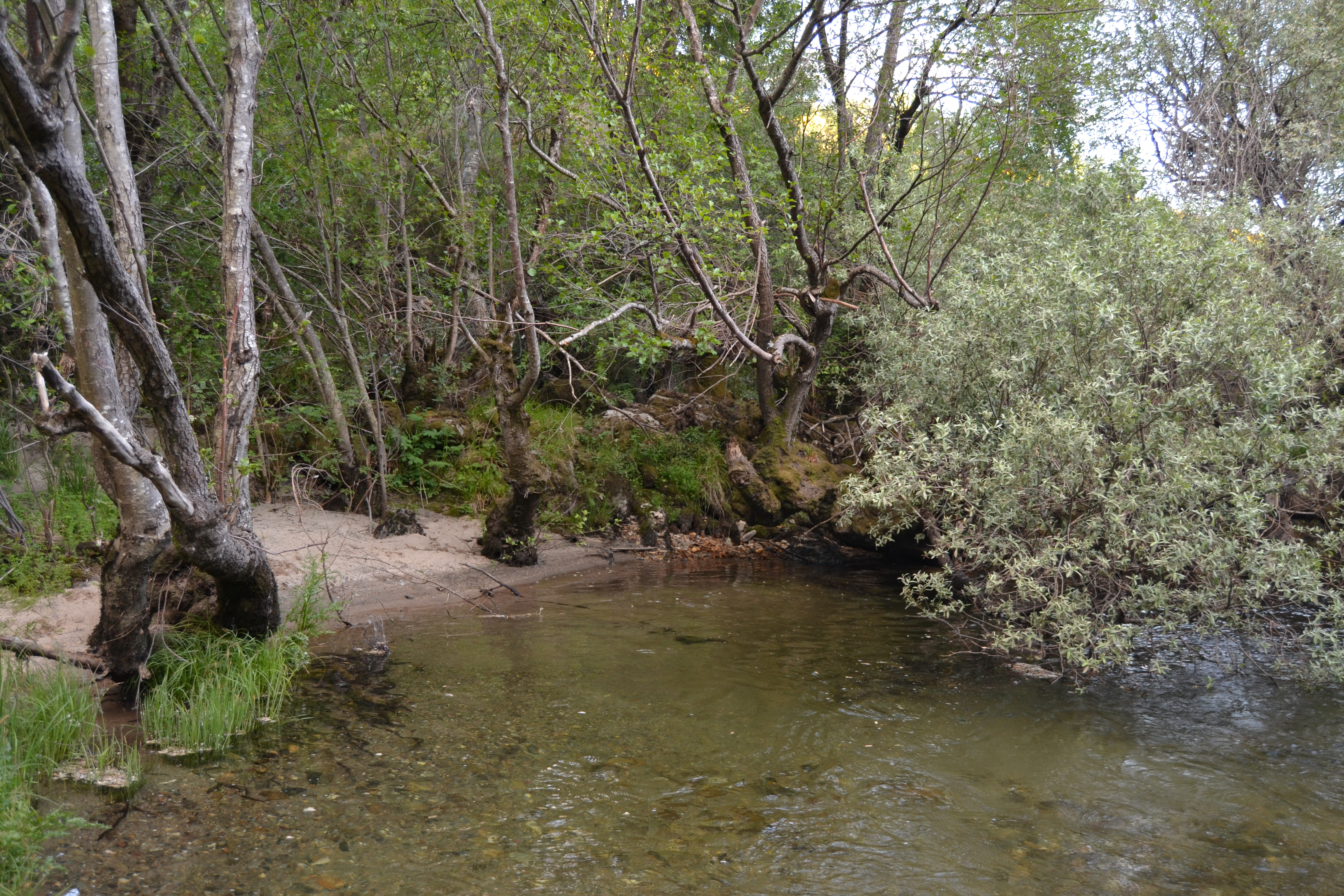 This is a photography of a Site of Community Importance in Portugal with the ID: PTCON0002. Natura2000 entry, EEA entry